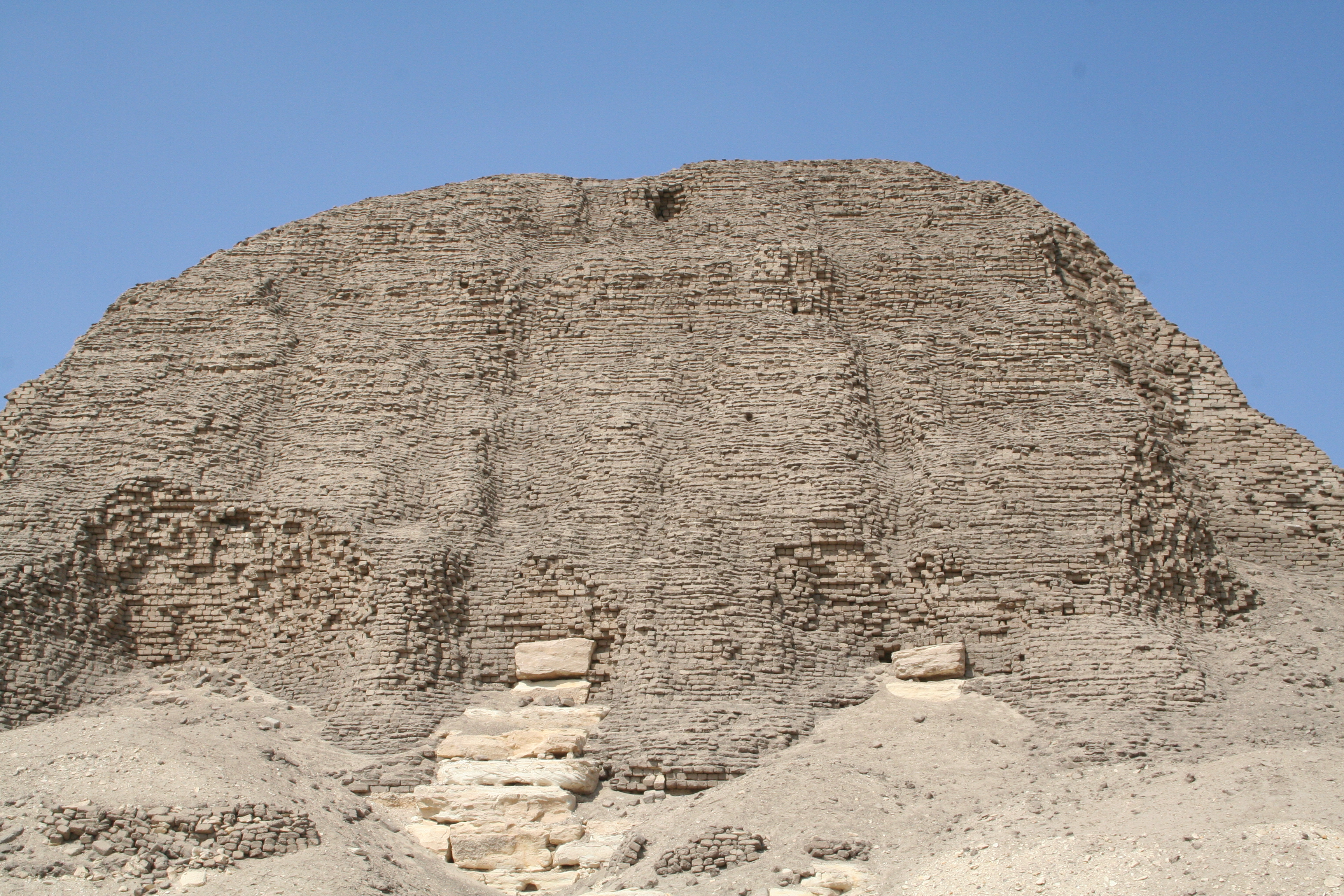 El Lahun, Pyramid of Senusret II